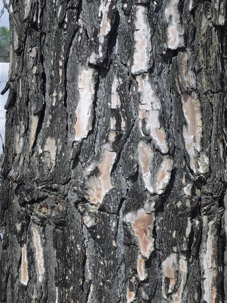 Tree Stem Pinus Roxburghii